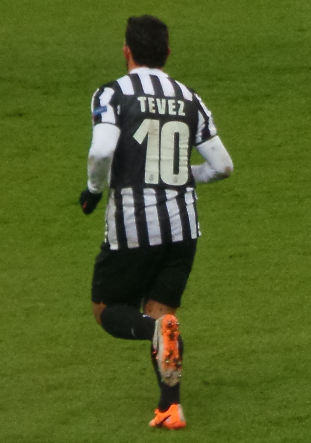 Carlos Tévez with 10 against G.S..